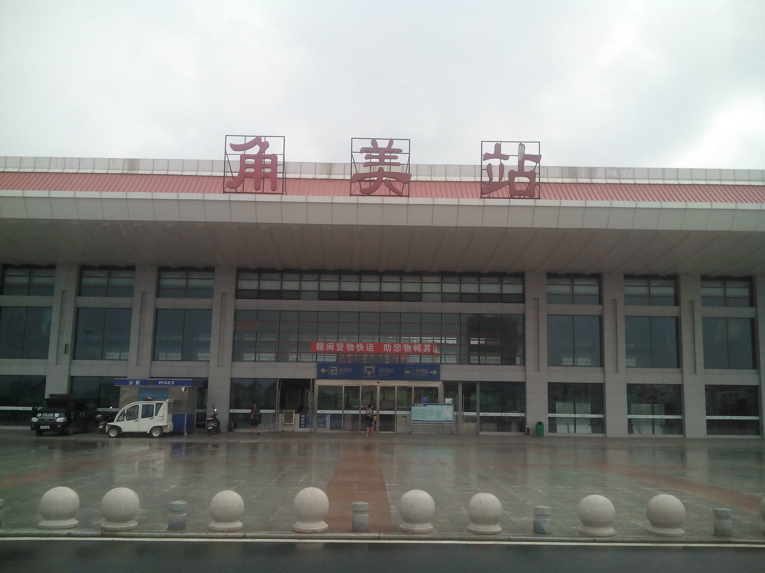 201508 Facades of Jiaomei Railway Station